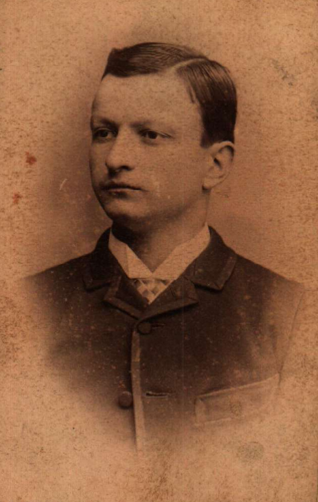 Bulgarian actor Georgi Zlatarev (1870-1952)